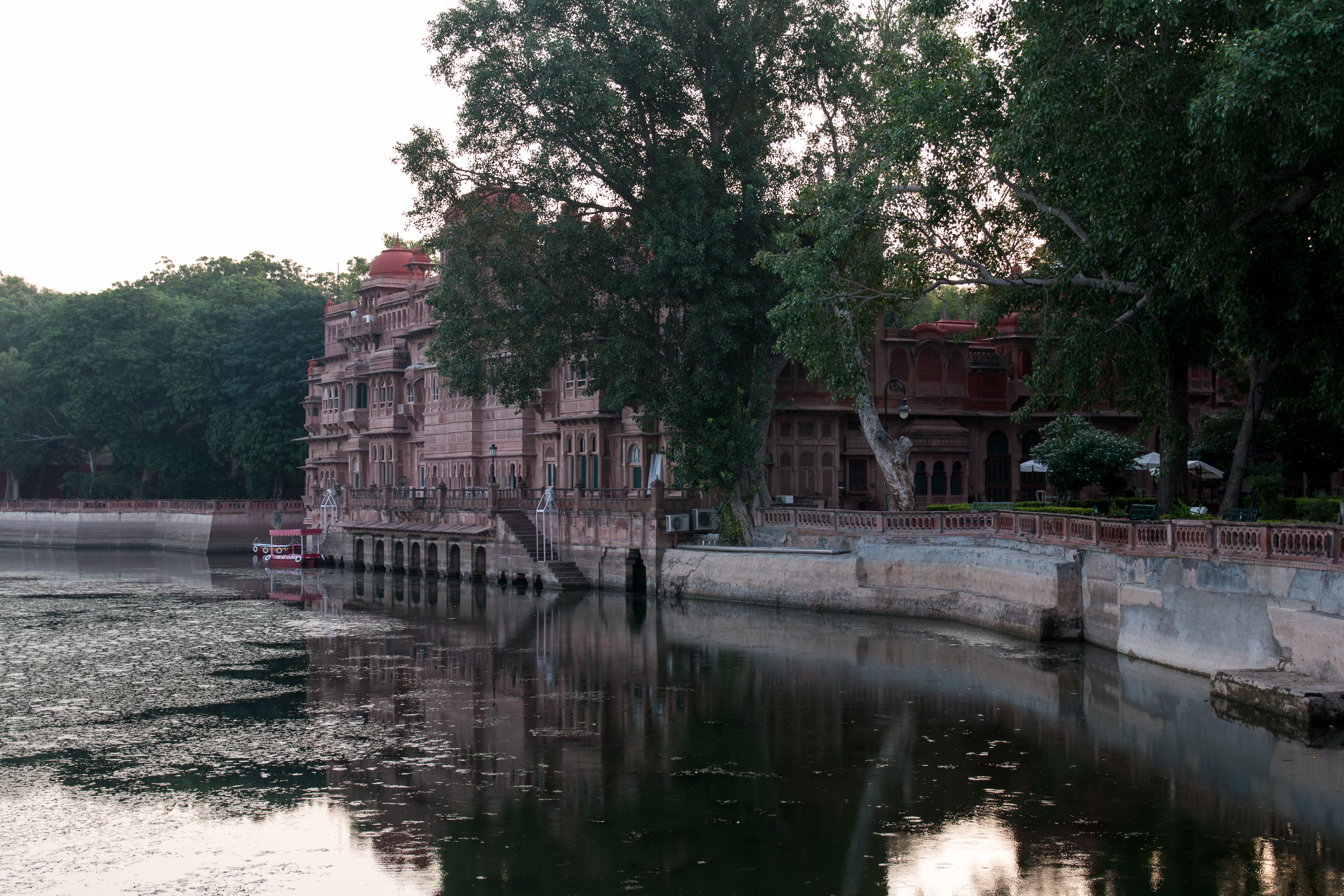 Palace of Maharajah of Bîkâner.